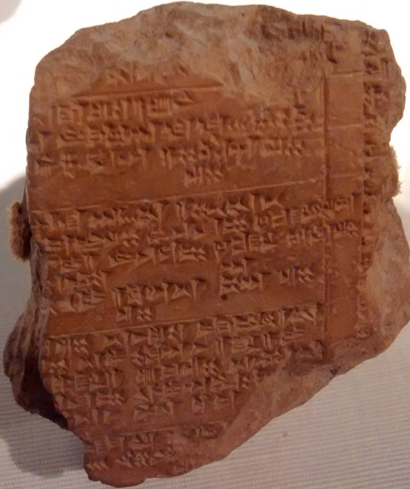 Tablet on display at the Oriental Institute, with the caption: Hittite Cuneiform Tablet: Cultic Festival Script Baked clay Hattusha Late Bronze Age (14th century BC?) A6007 A6007 - VBot 32 - CTH 738.I 11 : Festival for Goddess Tetešḫapi